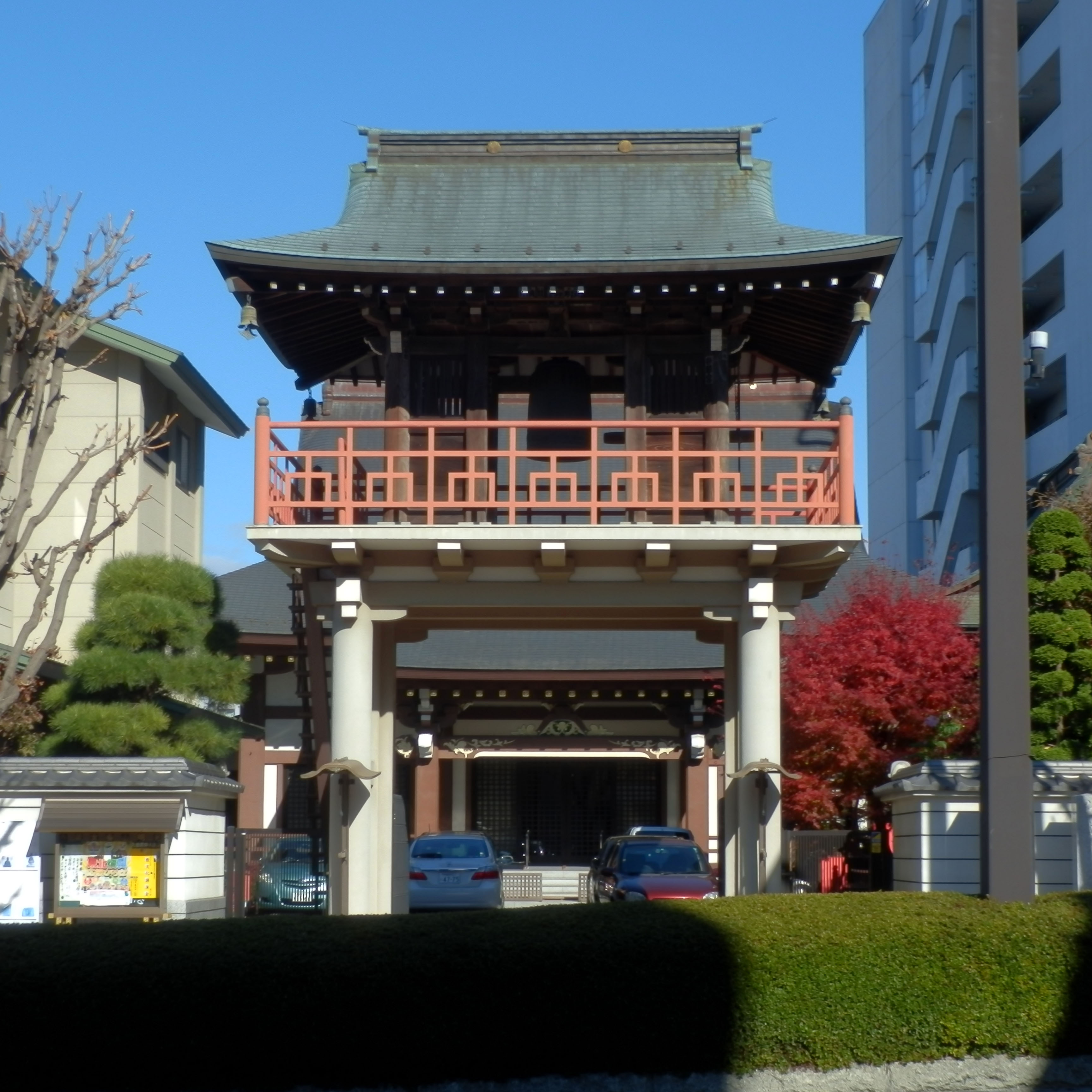 Hozoji (Buddhist temple in Utsunomiya, Japan)